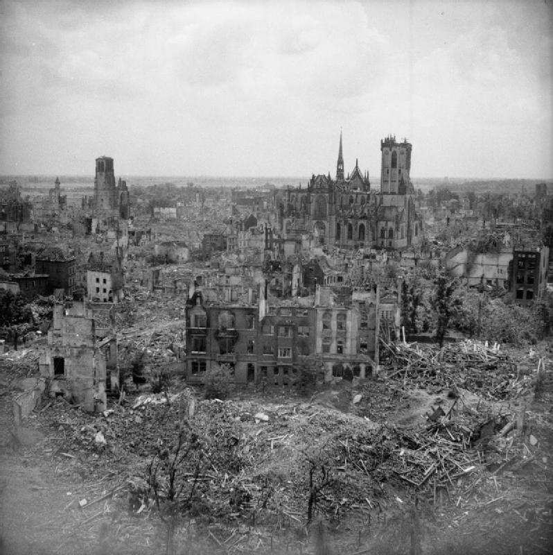 The British Army in North-west Europe 1944-45- Military Government Restoring Public Utilities at Wesel Restoring electricity to Wesel: One of a set of photographs giving some idea of the whole devastation to then town of Wesel.